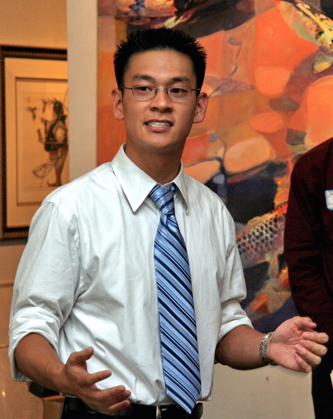 Evan Low campaigning for Campbell City Council.